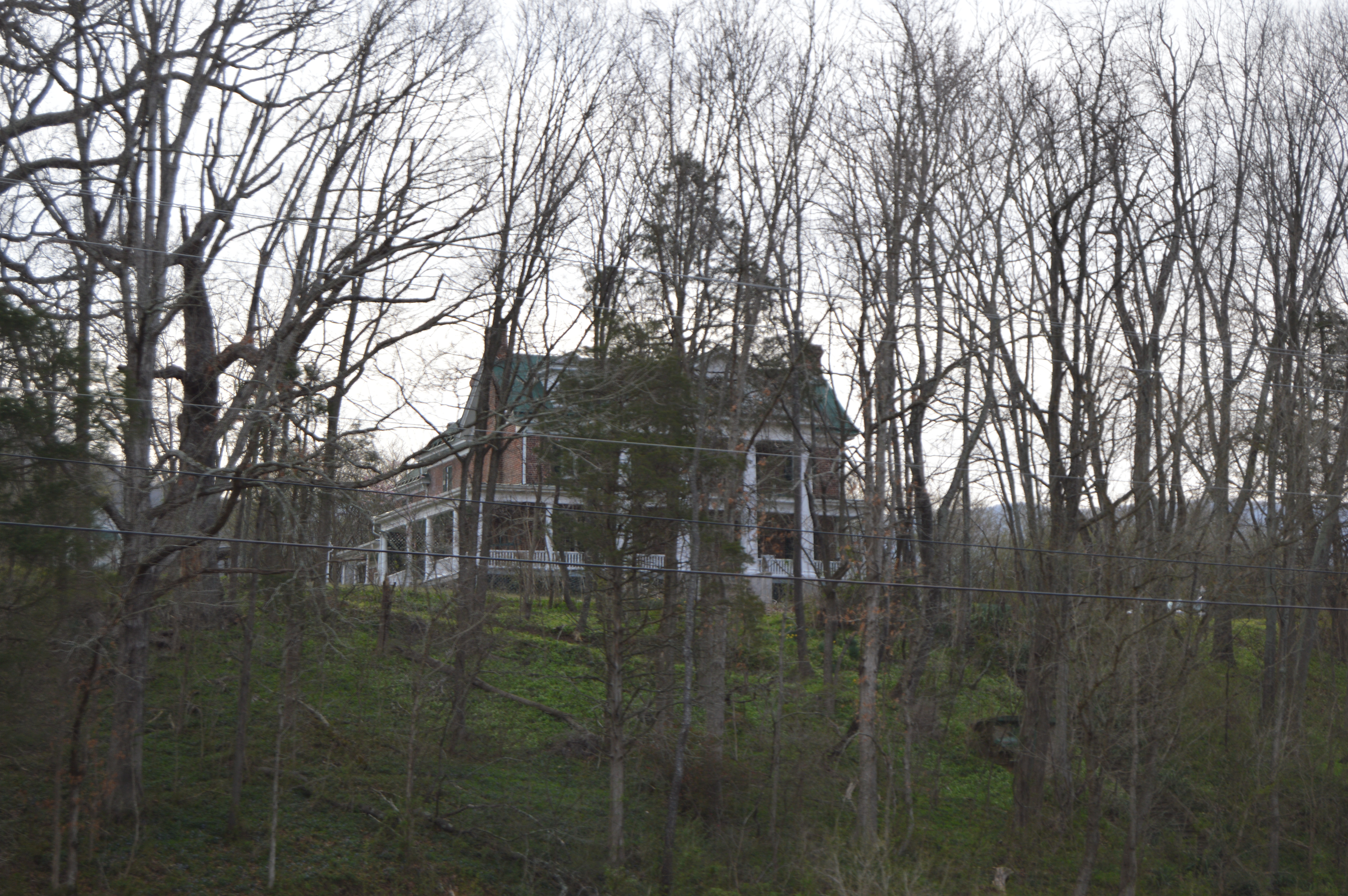 Through-the-trees view of the Barnett House, located on U.S. Routes 11/460 just south of Elliston in Montgomery County, Virginia, United States. Built in 1808 and greatly reworked in the early twentieth century, it is listed on the National Register of Historic Places.